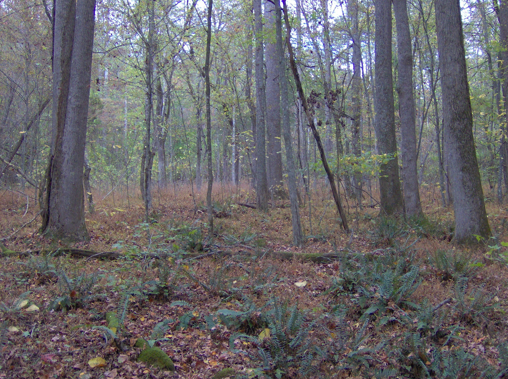 Young forest along the Ghost House Loop Trail at Big Ridge State Park in Union County, Tennessee, in the southeastern United States.